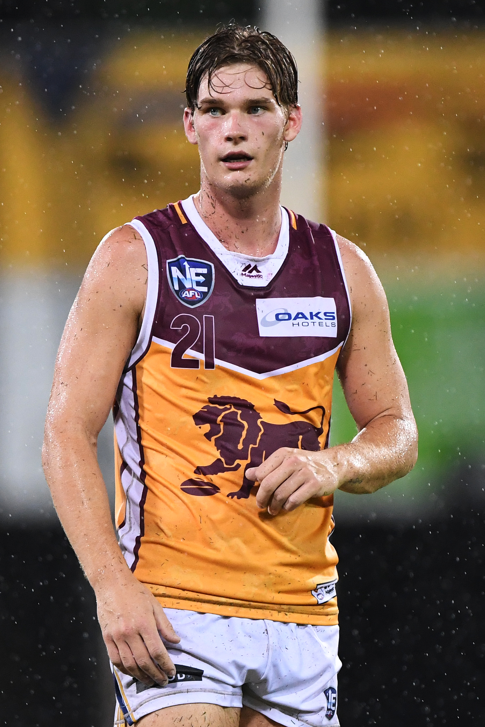 Sam Skinner of the Brisbane Lions during the NEAFL round one match between NT Thunder and Brisbane Lions at TIO Stadium on 6 April 2019 in Darwin, Australia.